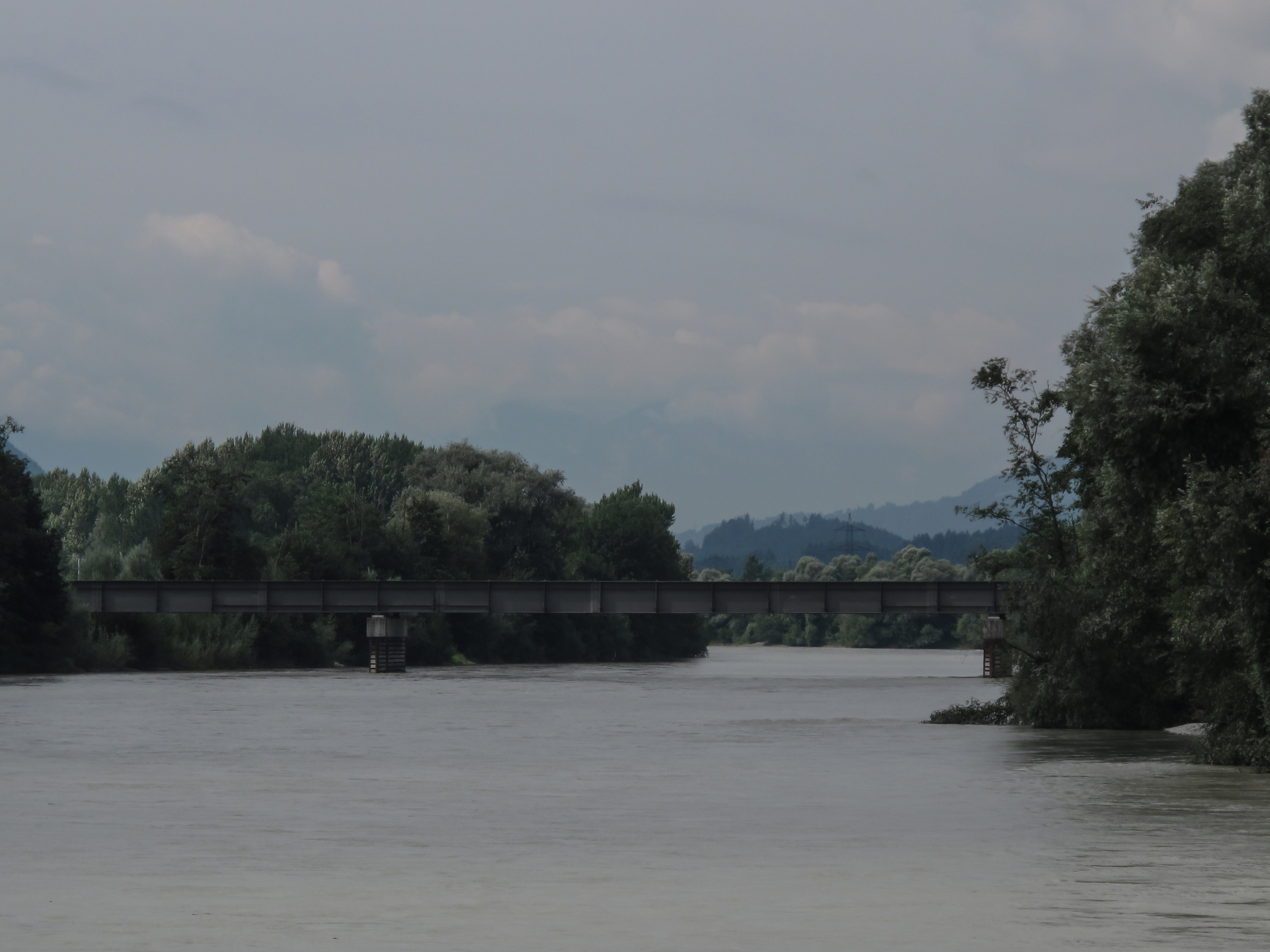 near Brixlegg, river der Inn